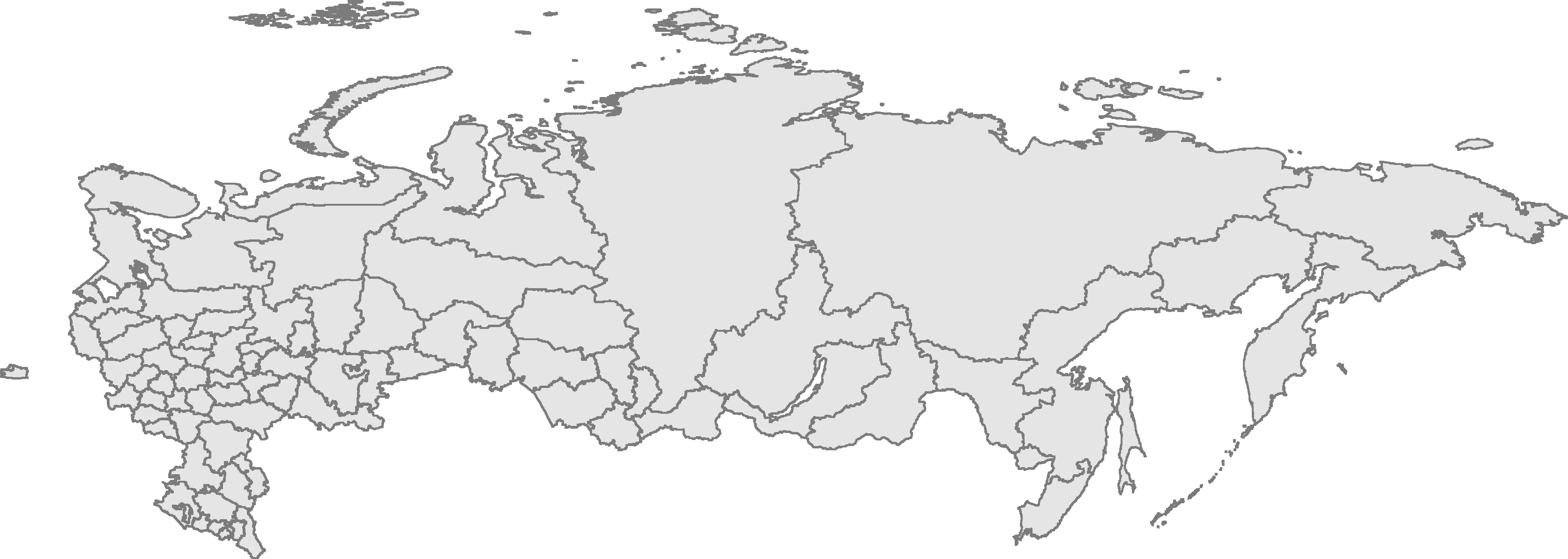 Russian Federation contour map, based on Image:Russia-equirectang*1,5.png